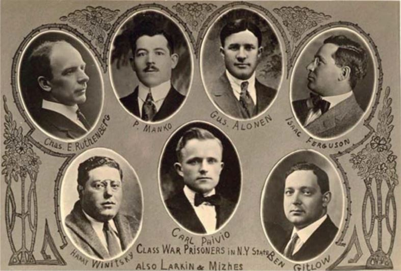 Class War Prisoners in New York State poster by National Defense Commitee 1920.